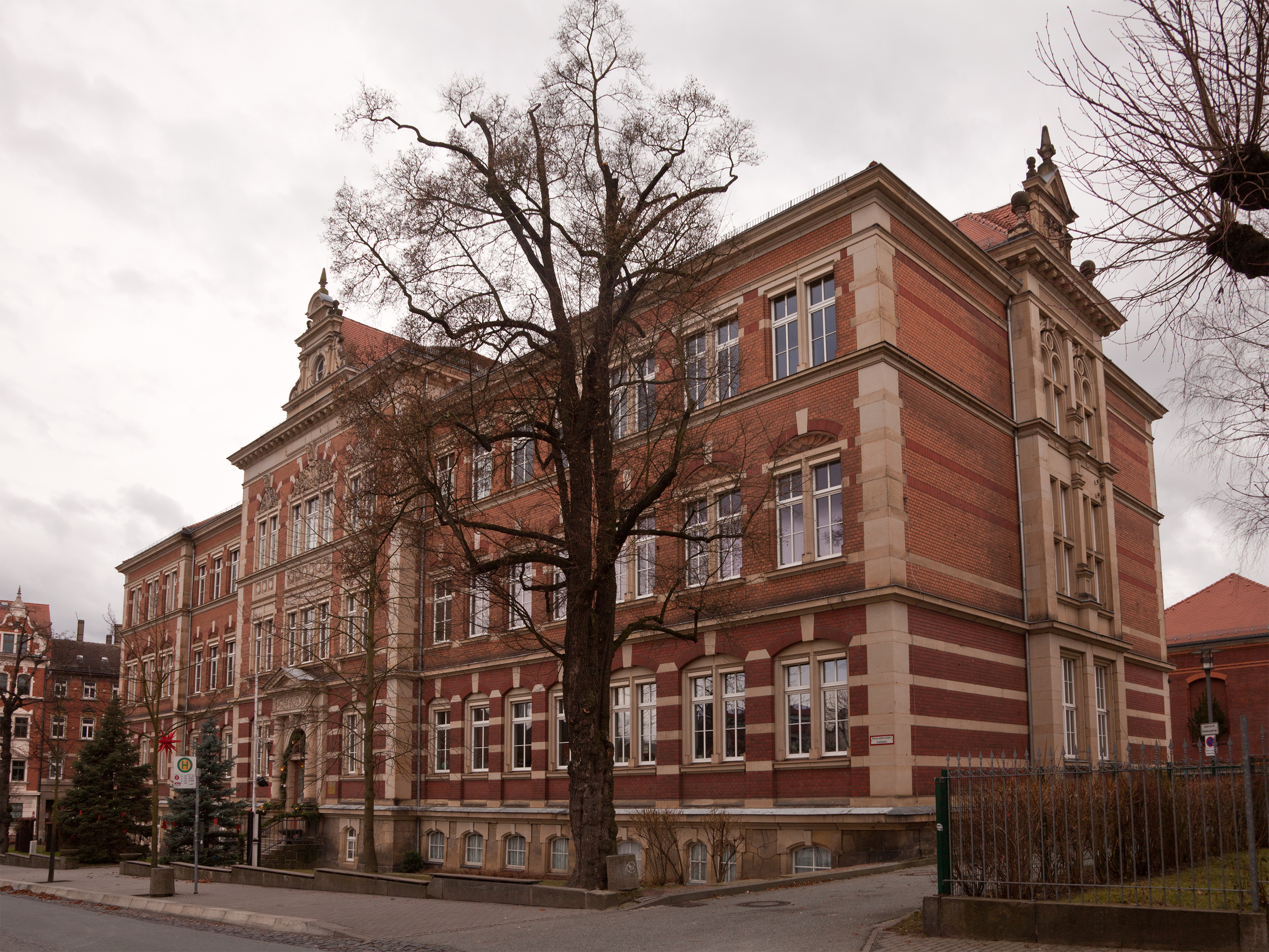 Heinrich-Pestalozzi-Oberschule (school in Löbau, Saxony)